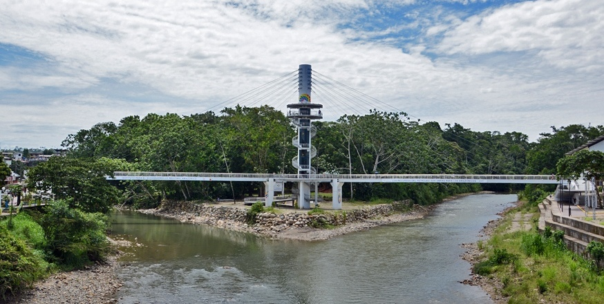 Bridge over the Rio Pano (left in the picture) and Rio Tena in the city of Tena